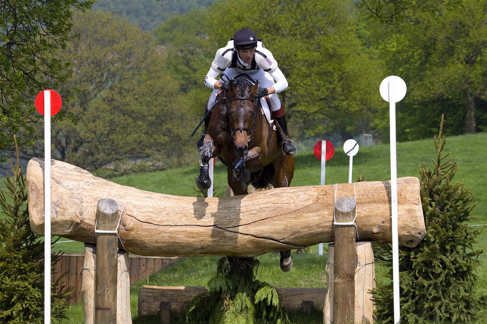 Chatsworth International Horse Trials 2008